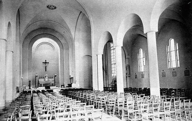 Our Lady of the Rosary Church (Béja)